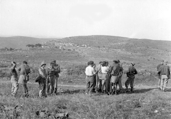 Members of Palmach from Kfar Menachen with Idnibba in distance. חברי הכשרת כפר מנחם באחד המשלטים בדרך לירושלים